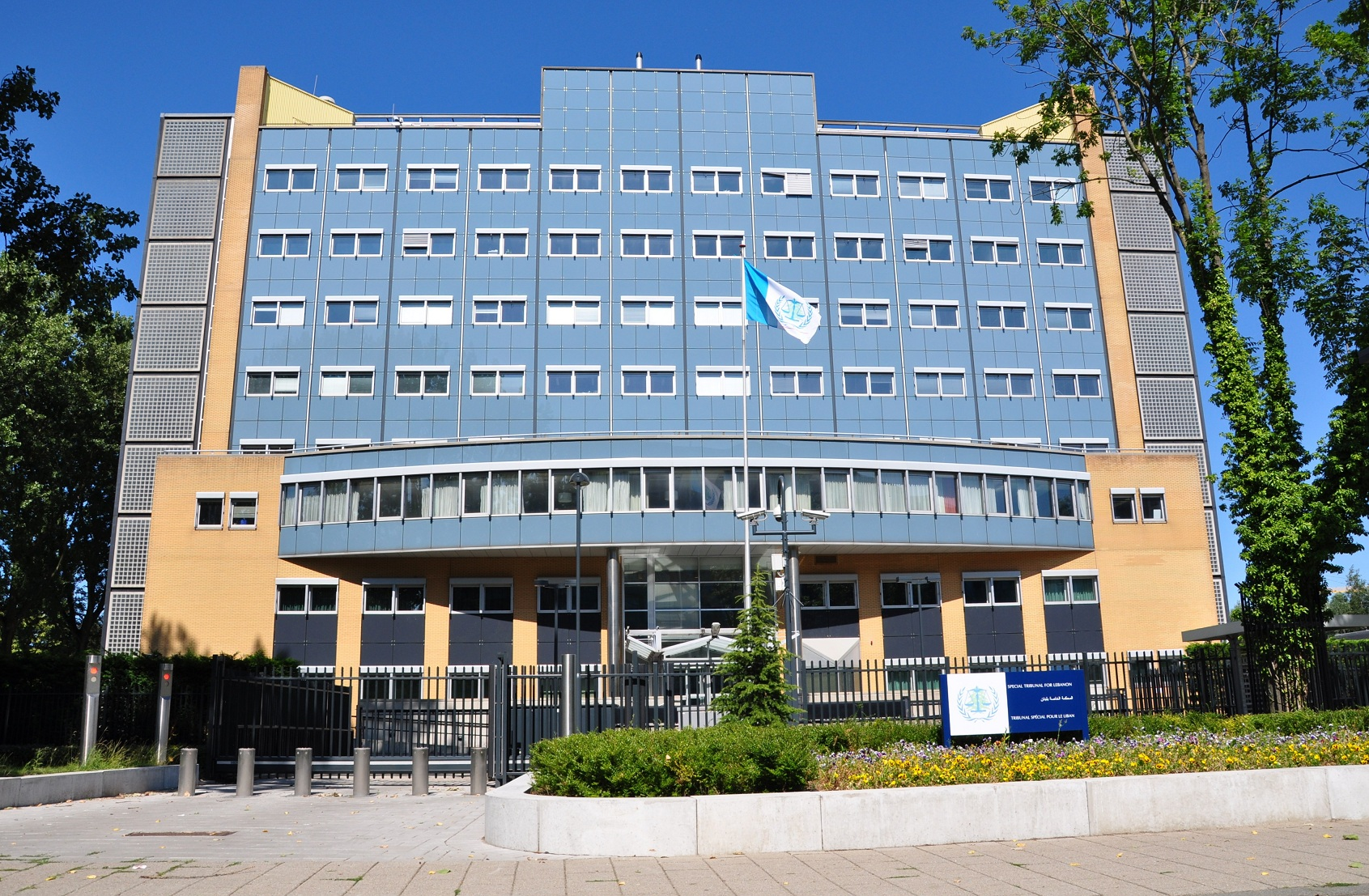 The UN Special Tribunal for Lebanon, Dokter van der Stamstraat, Leidschendam, Netherlands.